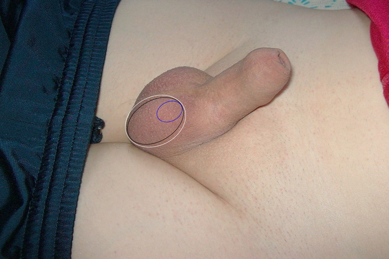 Normal testicular size after puberty averages 5x3 cm, normal range for length being 4,5-5,5 cm and for volume 15-30 cm3. In prepubertal boys testicular length is under 2 cm and volume under 2 cm3. In this image we see genitalia of a 29 years old male with normal sexual functions. Testicles are of typical size (right 5,0x3,0 cm/24 cm3, left 5,2x3,1 cm/26 cm3). The black oval represents the size of the left testicle. The blue oval estimates the size of a prepubertal testicle. The white oval estimates the size of a mid-sized chicken egg.